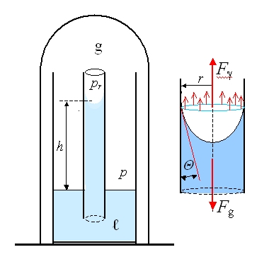 Capillary rise diagram. Author: Dr. Báder Imre